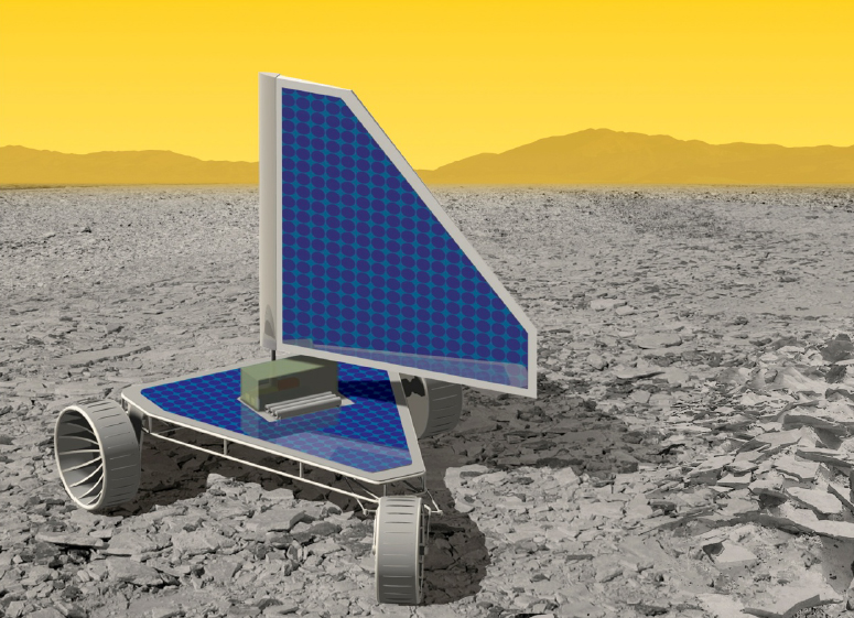 The Zephyr rover, of the "Venus Landsailing Rover" concept was announced in 2012 and it envisions a mobile robotic Venus rover that would be propelled by the force of the wind by using one vertical and rigid wingsail. All the hardware is proposed to be resistant to the surface conditions and without the need of cooling. The desired operation time on the surface of Venus is 50 days.